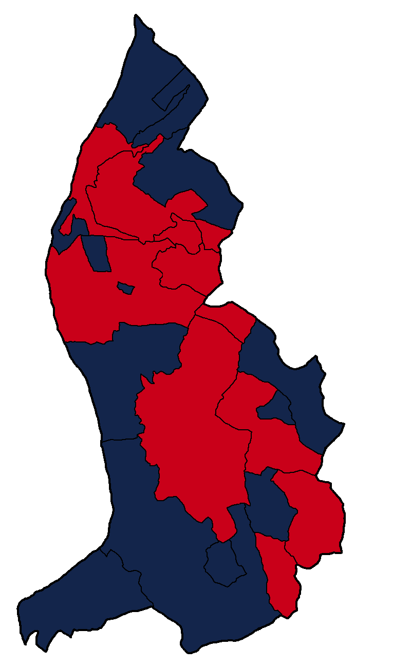 Liechtestein's municipalities colored by the party of the winning candidates for mayor